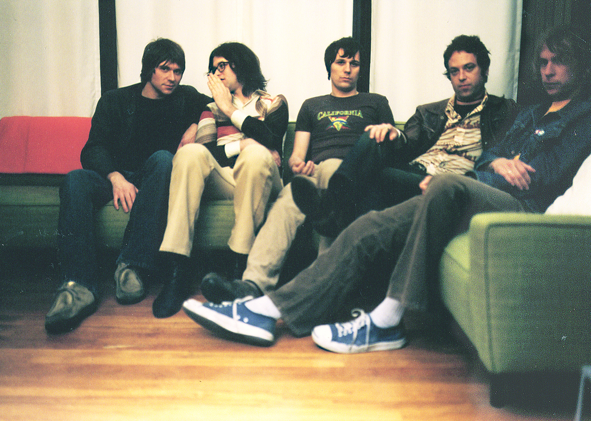 The Pattern promotional photo taken by Andrew Paynter.